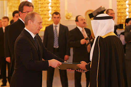 THE KREMLIN, MOSCOW. The Ambassador of Saudi Arabia, Ali Hassan Jaafar, presents his credentials to the President of Russia.